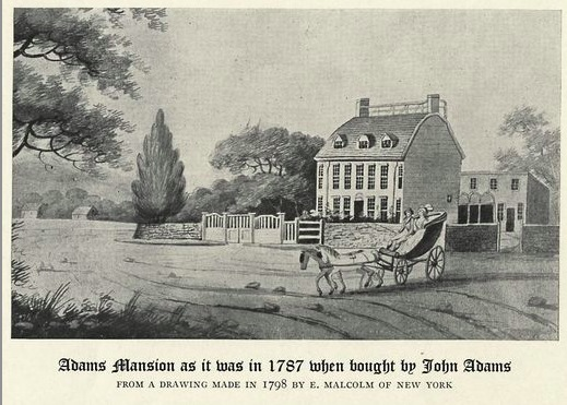 Adams Mansion as it was in 1787 when bought by John Adams